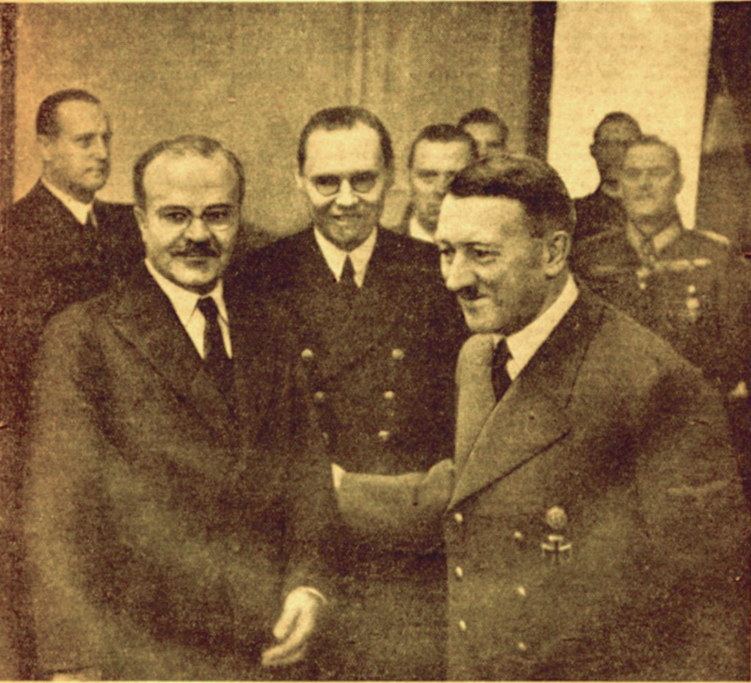 Front page of "Pravda". Photo of Vyacheslav Molotov and Adolf Hitler at the Reich Chancellery.